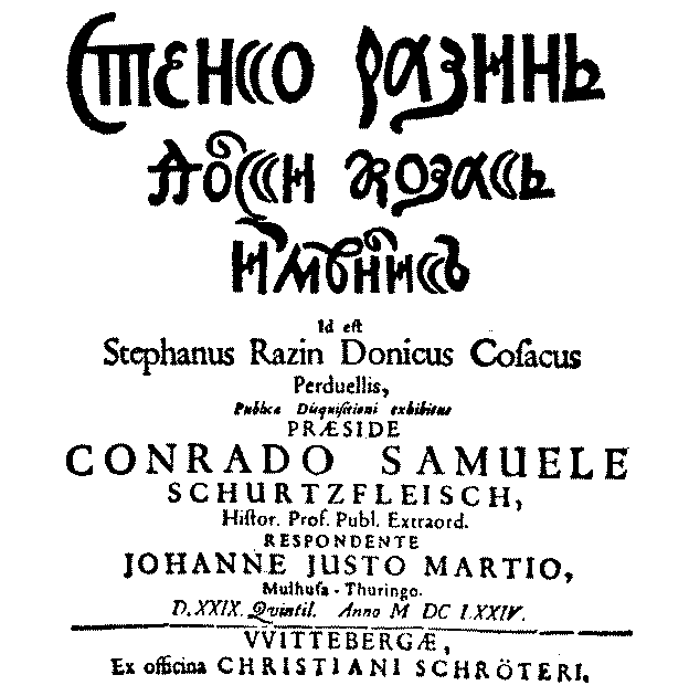 J. J. Martius. Stenko Razin' Donski Kozak' izměnnik id est Stephanus Razin Donicus Cosacus perduellis... (Dissertation on Stepan Razin, 1674), Title page